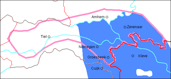 Outline of South Guelderish dialect by Jo Daan, compared with overlap of Kleverlandish. Kleverlandish using isoglosses from Jan Goossens